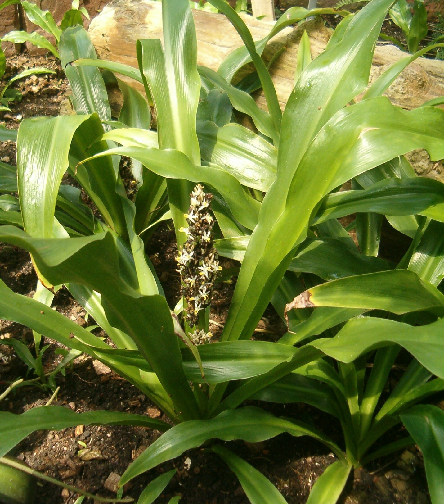 At Botanical Gardens Berlin-Dahlem Species Chlorophytum macrophyllum